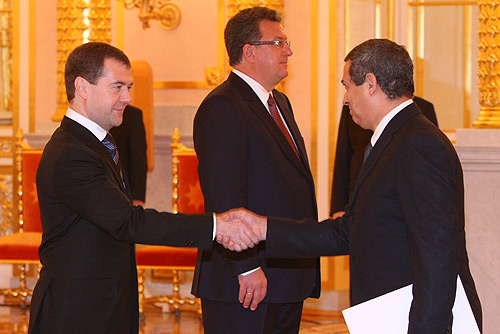 THE KREMLIN, MOSCOW. Presentation ceremony of foreign ambassadors’ letters of credentials. Ambassador of the Republic of Cuba Juan Valdez Figueroa presents his letter of credentials to the President of Russia.